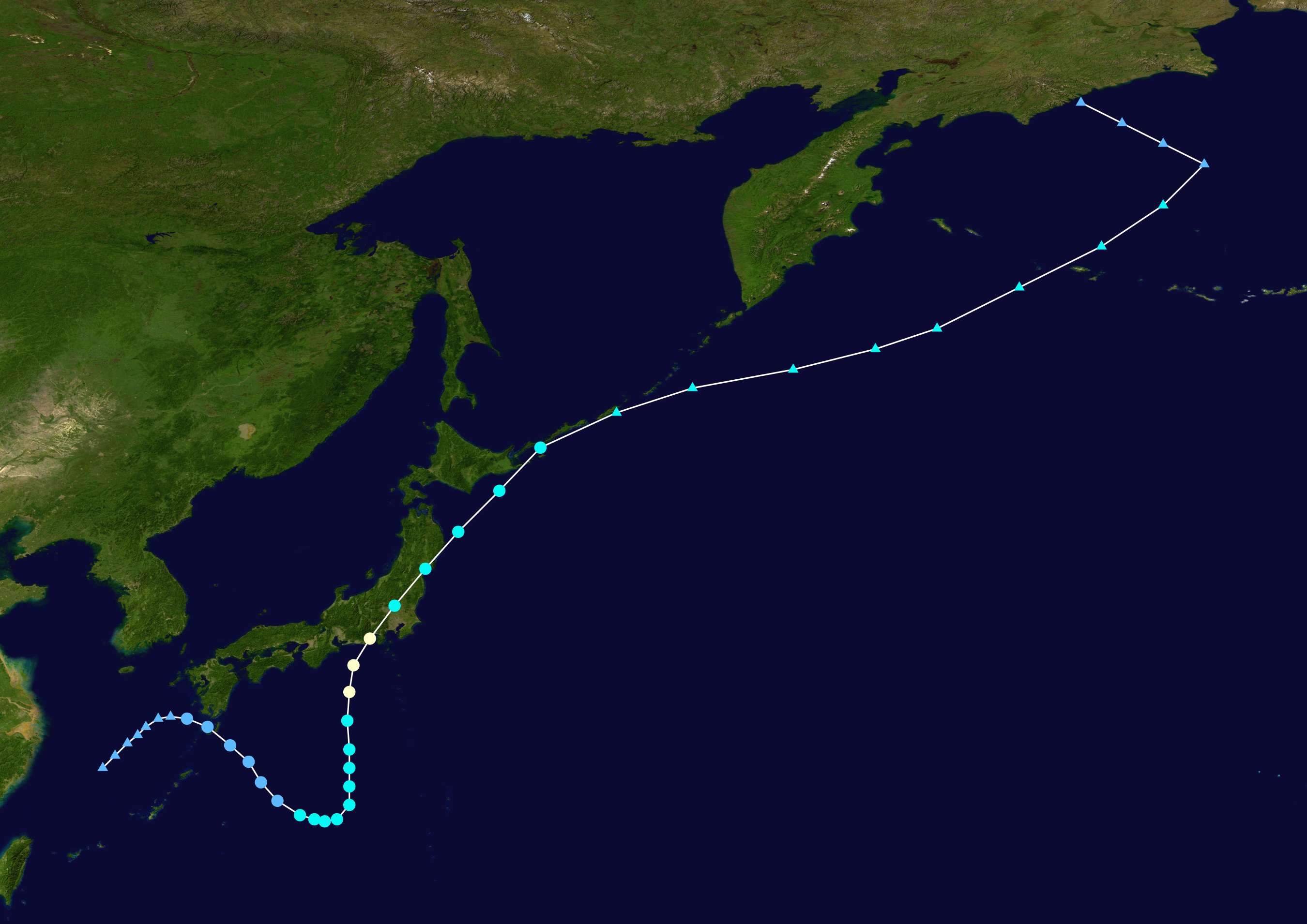 Track map of Typhoon Winona of the 1990 Pacific typhoon season. The points show the location of the storm at 6-hour intervals. The colour represents the storm's maximum sustained wind speeds as classified in the Saffir-Simpson Hurricane Scale (see below), and the shape of the data points represent the nature of the storm, according to the legend below. Saffir–Simpson hurricane wind scale Tropical depression≤38 mph≤62 km/h Category 3111–129 mph178–208 km/h Tropical storm39–73 mph63–118 km/h Category 4130–156 mph209–251 km/h Category 174–95 mph119–153 km/h Category 5≥157 mph≥252 km/h Category 296–110 mph154–177 km/h Unknown Storm typeTropical cycloneSubtropical cycloneExtratropical cyclone / Remnant low / Tropical disturbance